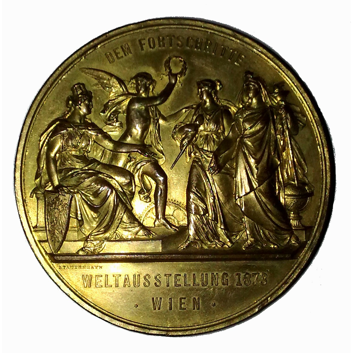 photo of medall from world exhibition in vienna 1873